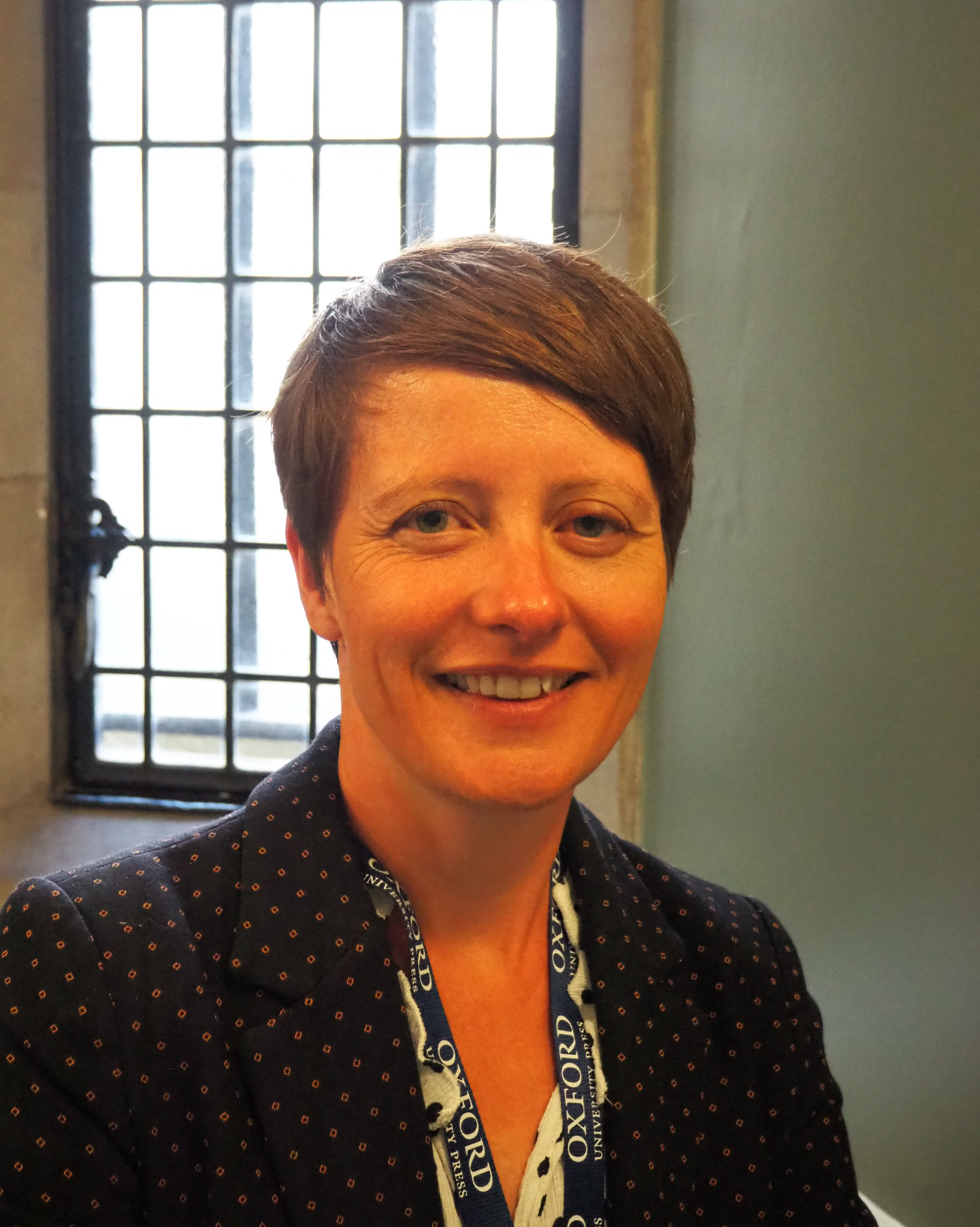 Lucy Grig, taken at Oxford Patristics (August 2019)